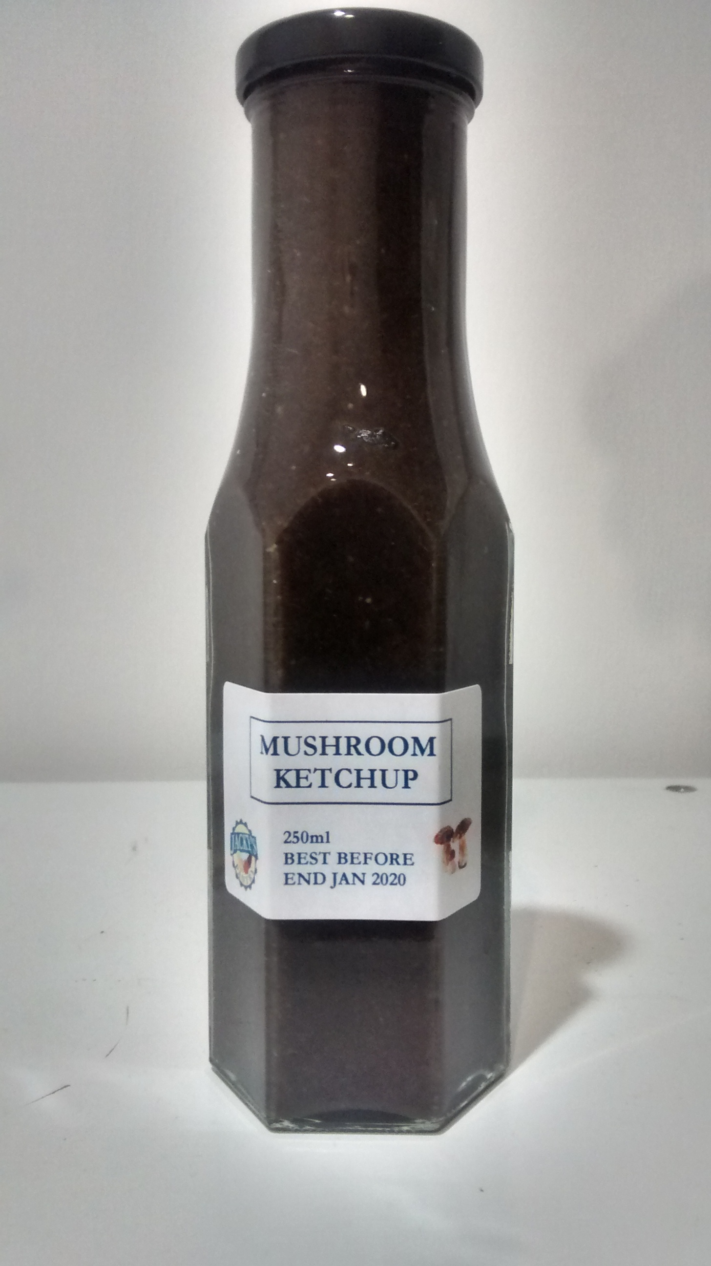 A home made product produced in small batches.